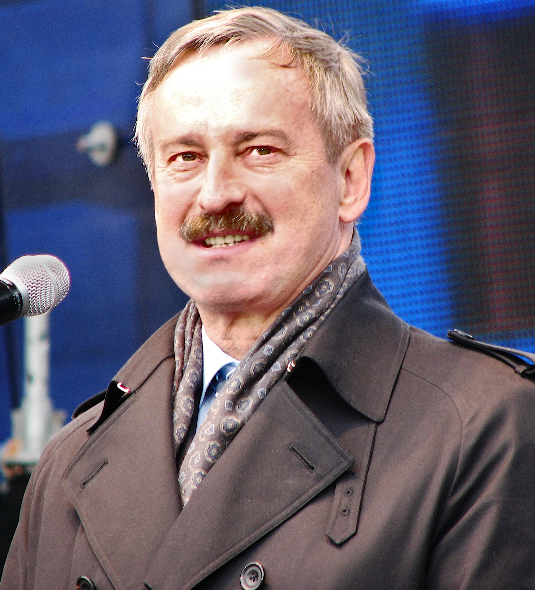 Siim Kallas in Big Slam